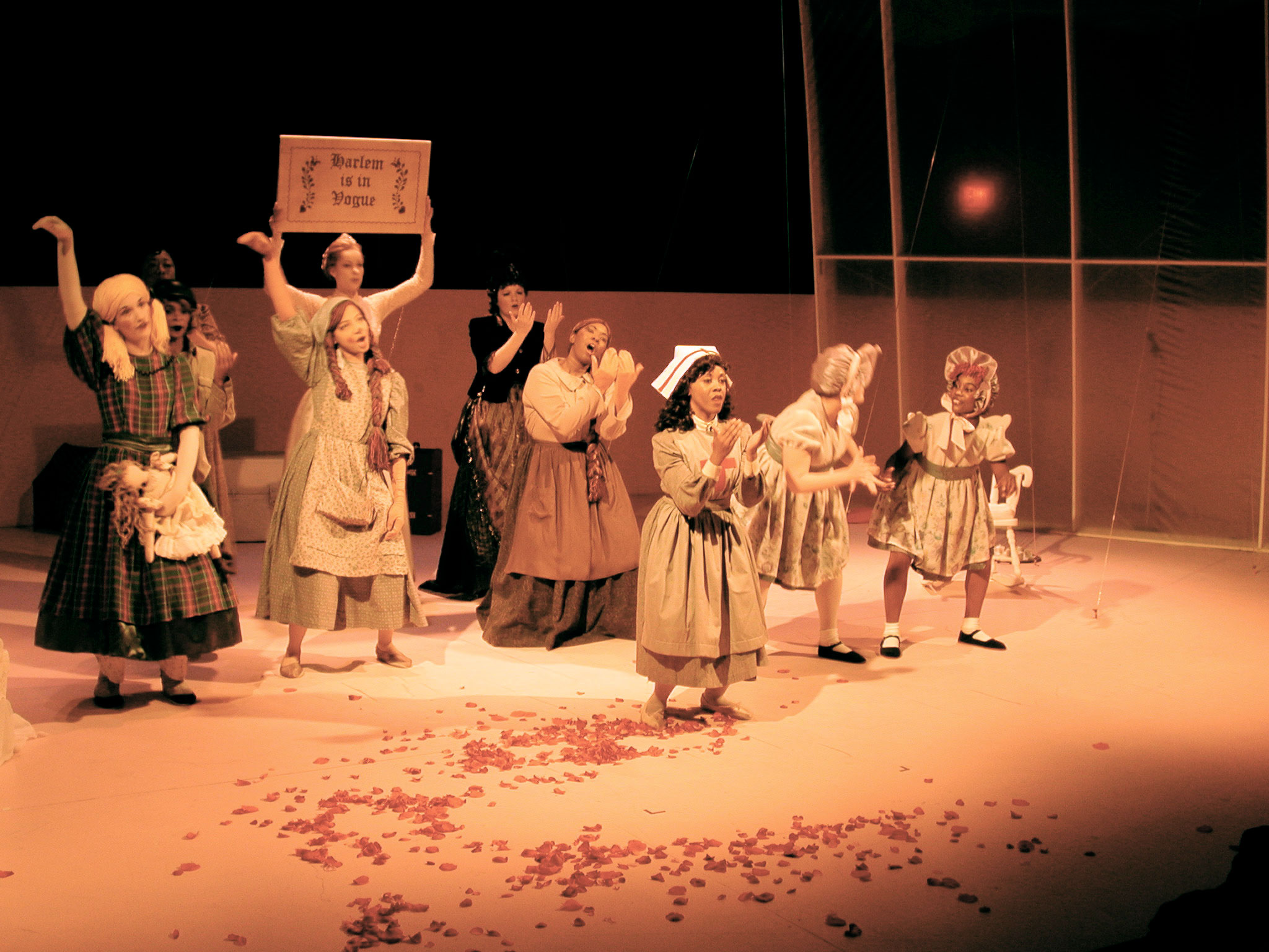 The Doll Plays/ Photo still. Actors' Express Theater